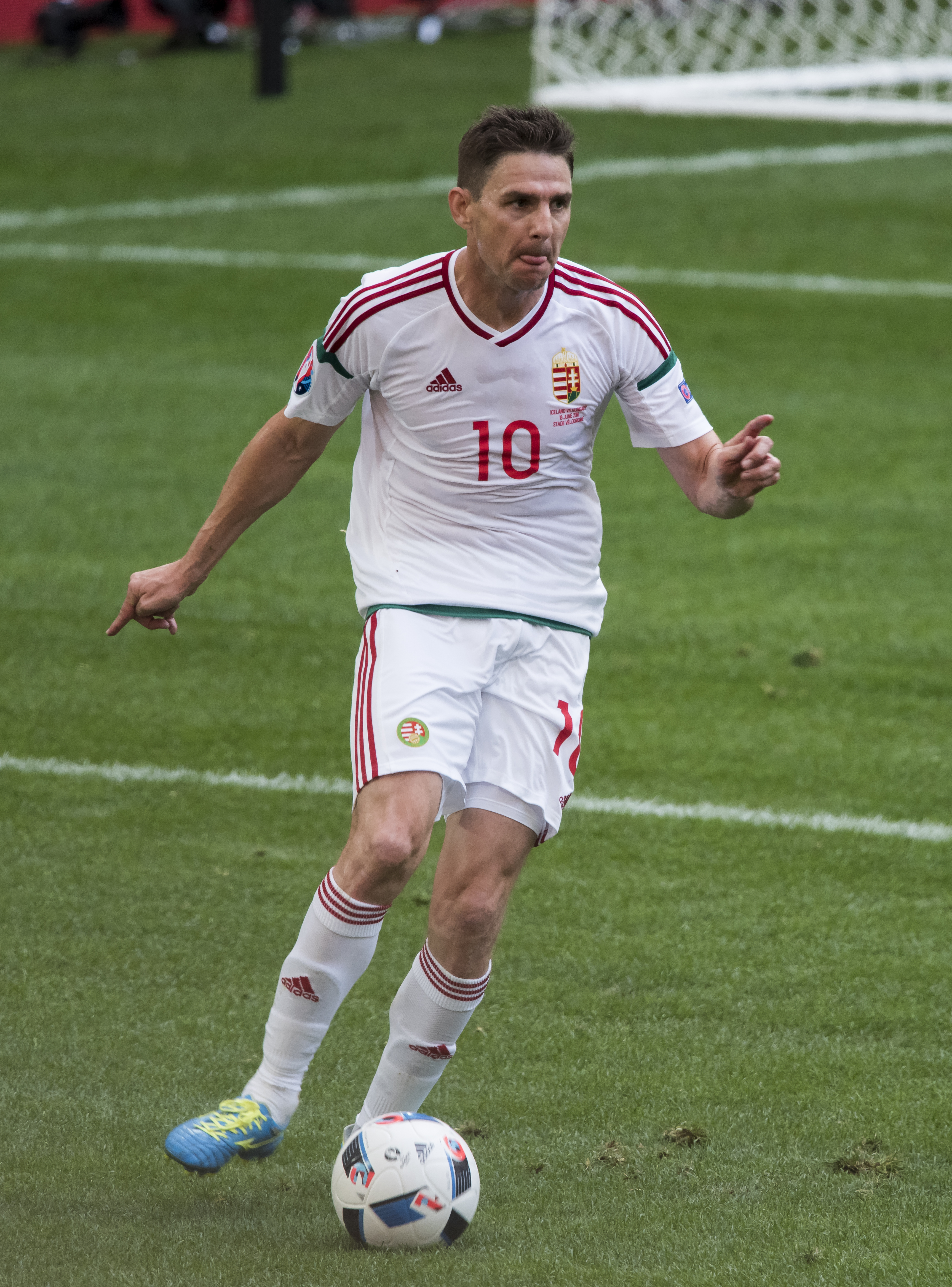 Zoltán Gera playing for Hungary in a Euro 2016 game against Iceland